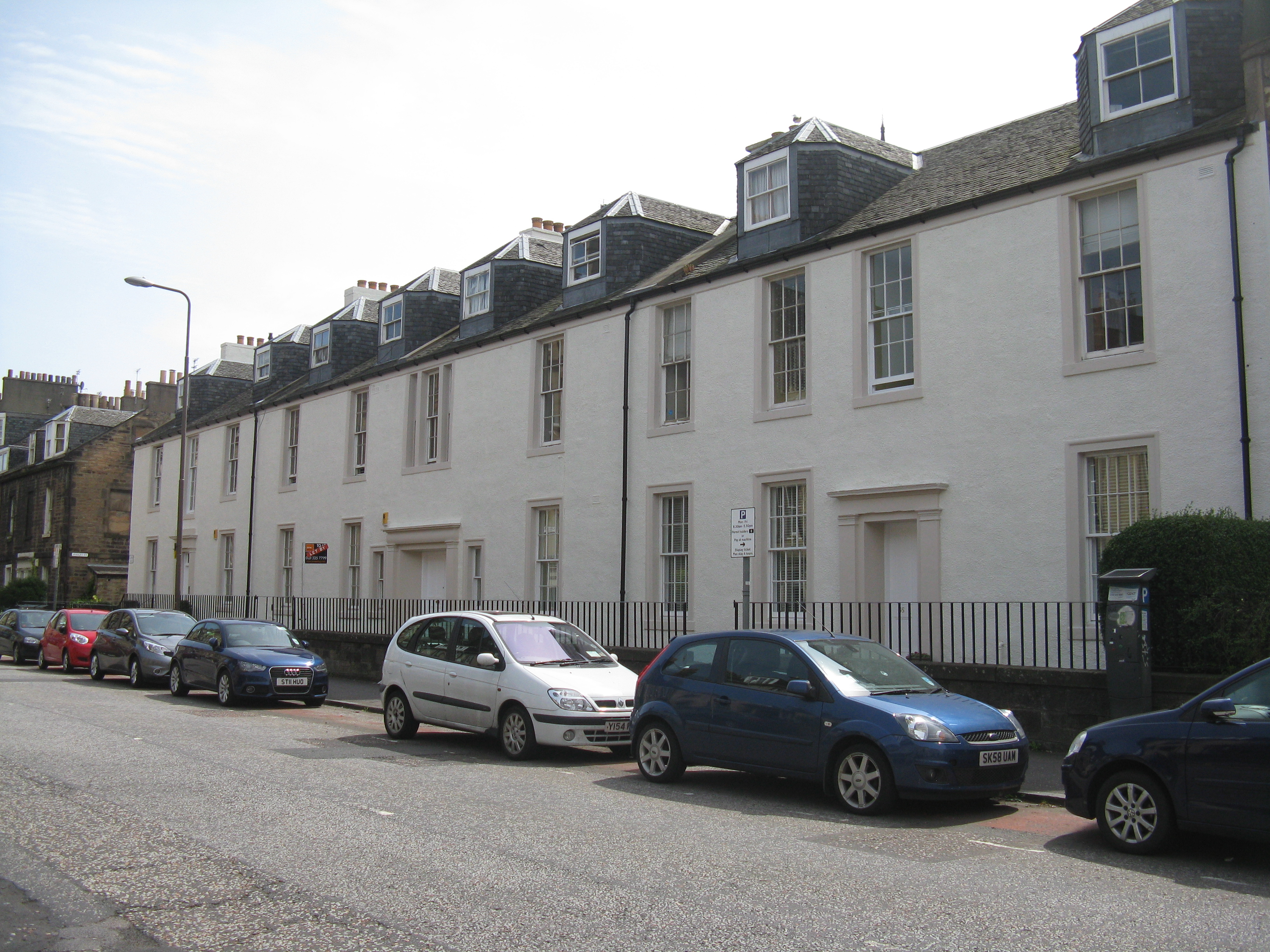 31-35 Gilmore Place, Edinburgh